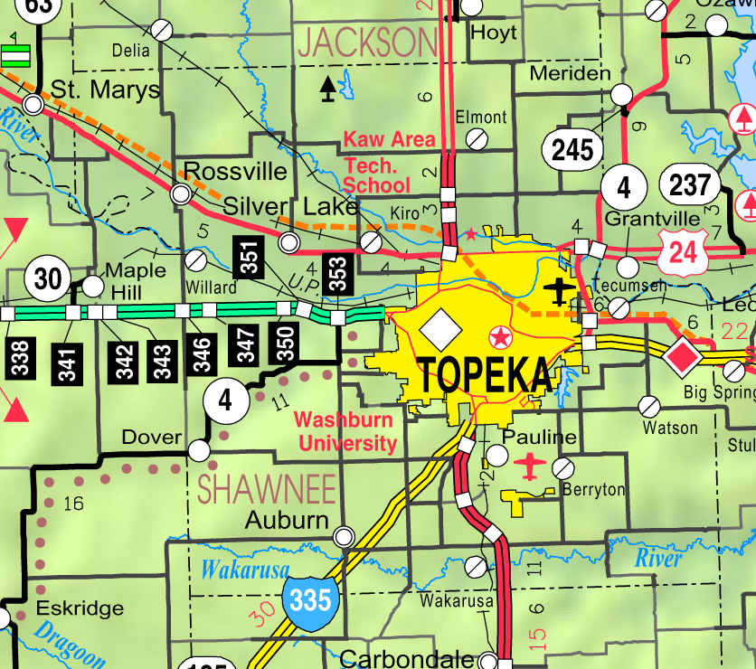 This map of Shawnee County, Kansas, USA, is copied at a resolution of 300 pixels/inch from the original PDF file.